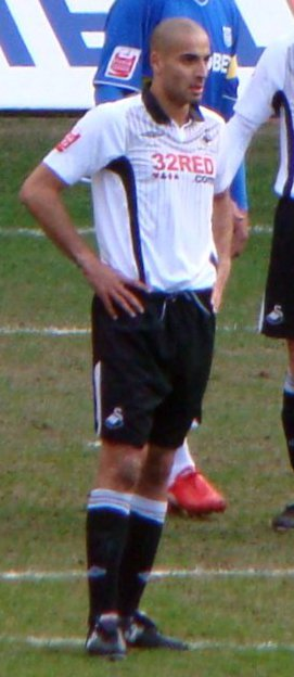 03/04/10 Cardiff V Swansea, Chamionship, Cardiff City Stadium, Cardiff, Wales